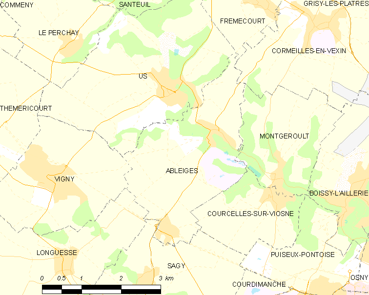 Map of French municipality Ableiges